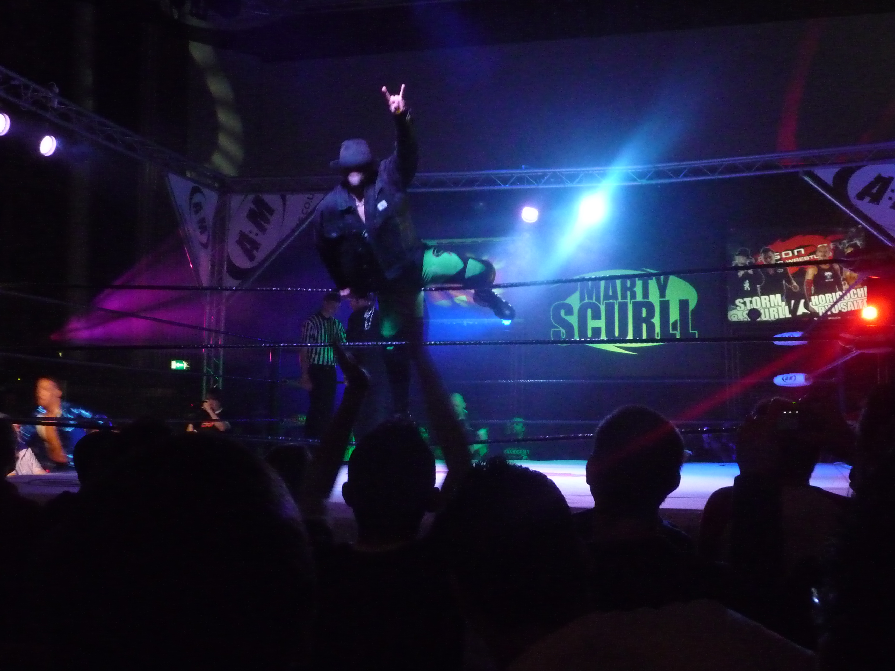 English professional wrestler Jonny Storm making his ring entrance before his four-way match against Marty Scurll, Genki Horiguchi and Ryo Saito at a Dragon Gate show.